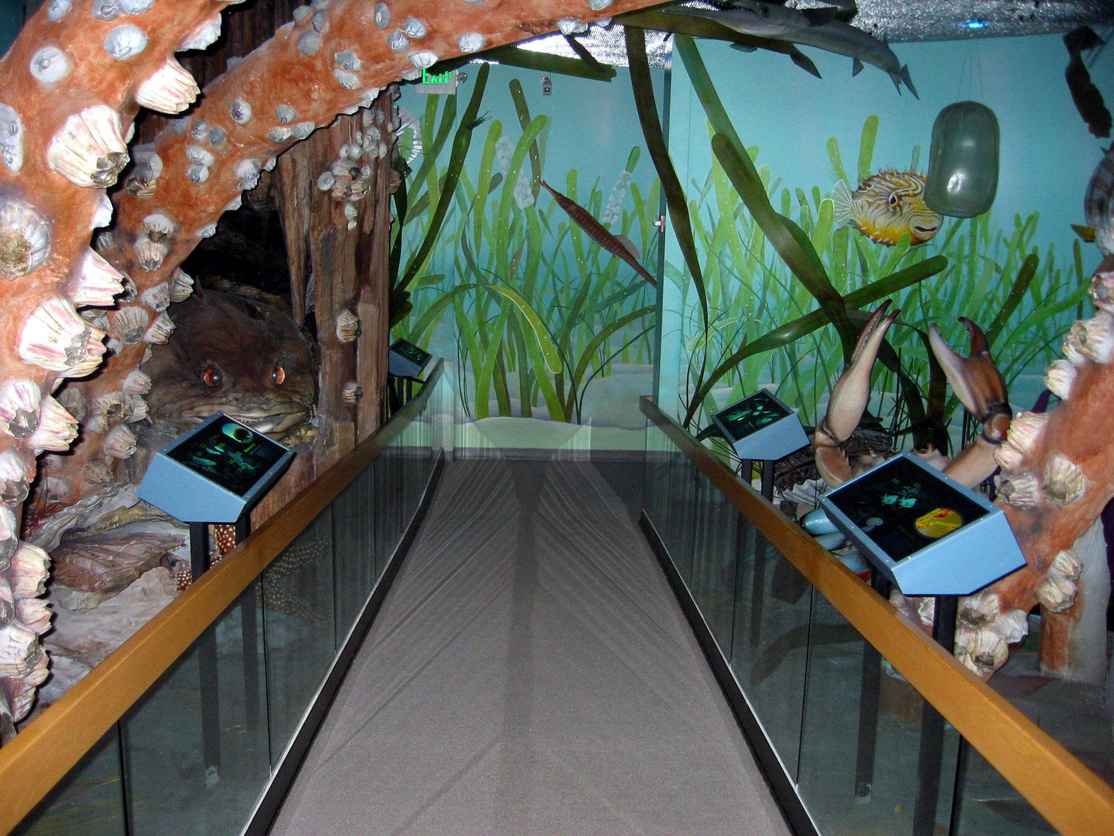 The giant estuary in the Southwest Florida Hall, Florida Museum of Natural History, Powell Hall.